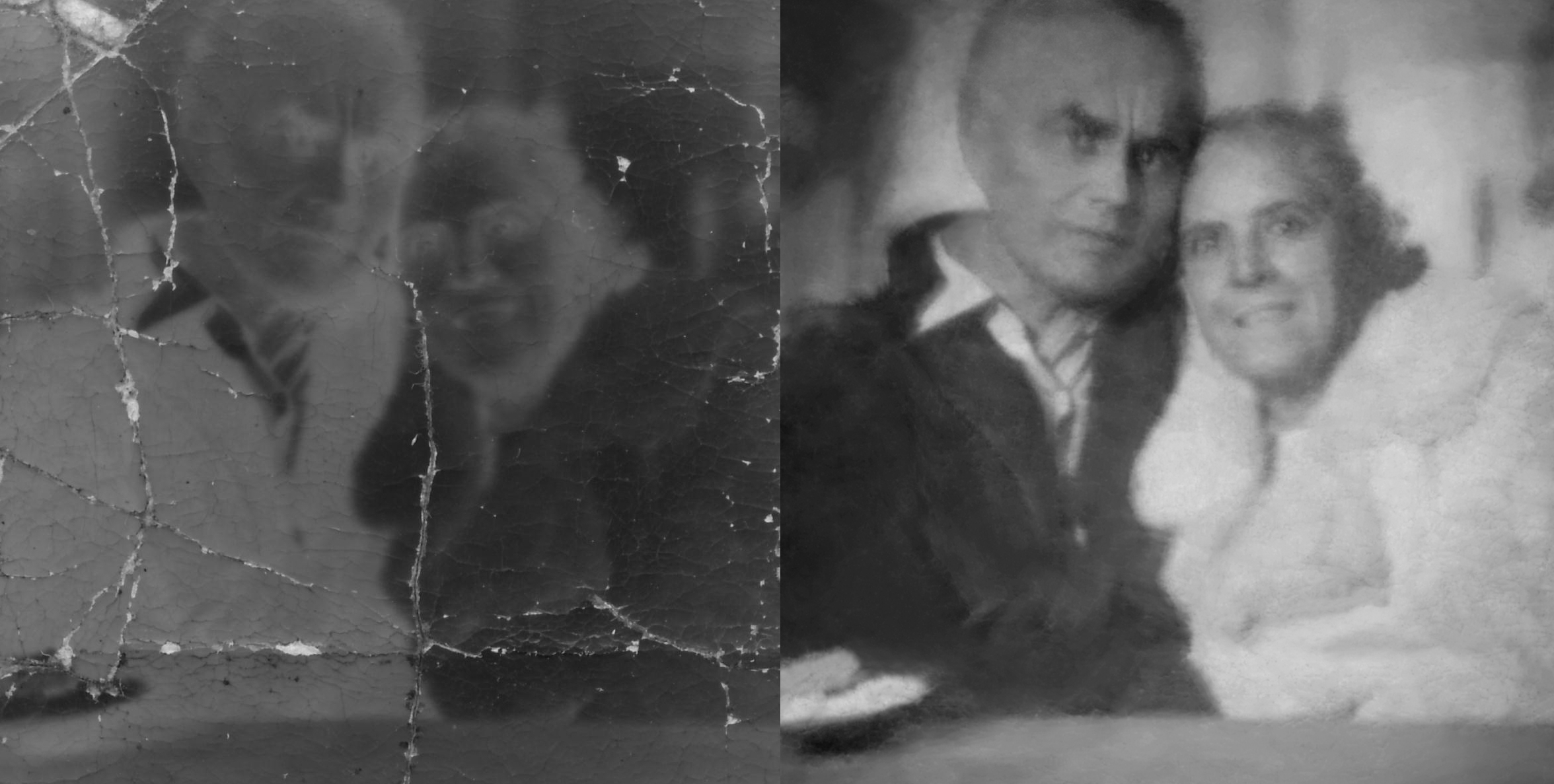 Restored Portrait photo created in 1951 with a pinhole camera. - The image restoration was performed in the workshop of Wikipedia by member "Hic et nunc" in November 2014; see below: "Restored Portrait photo; The presentation of the restoration steps"